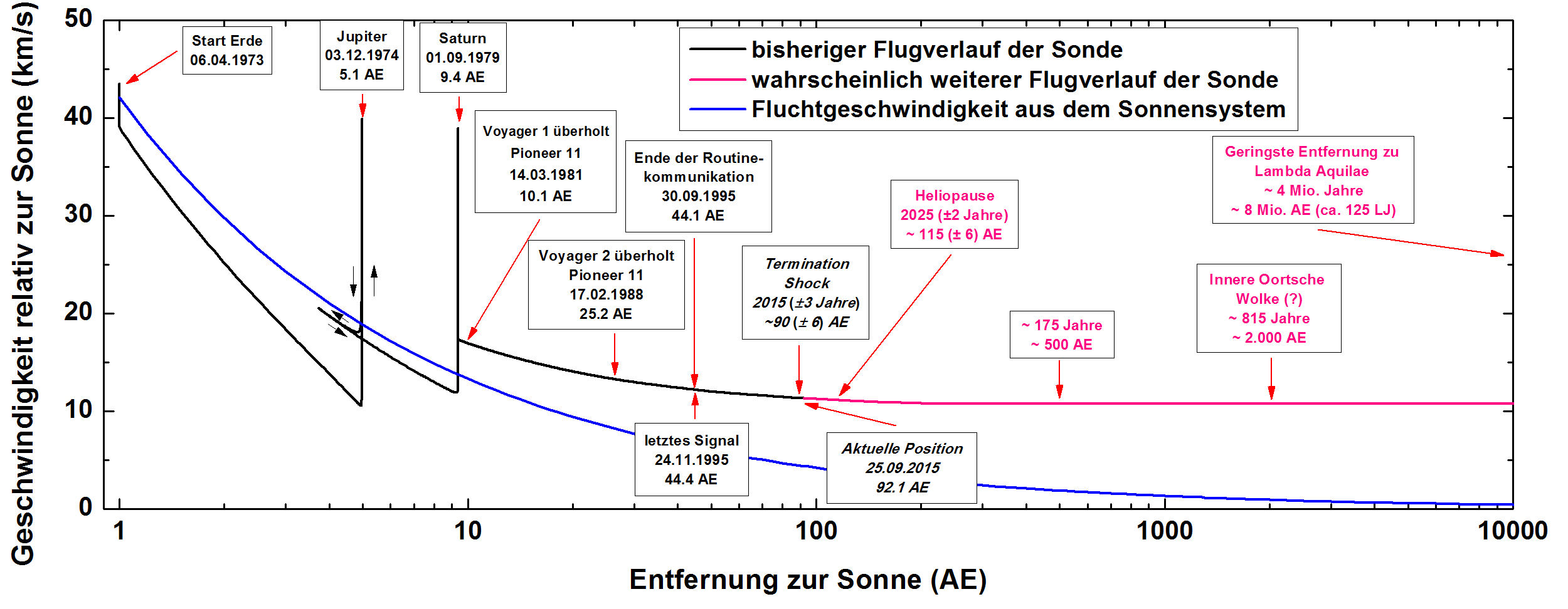 Past and future mission of the Pioneer 11 probe based on their velocity w.r.t. the sun